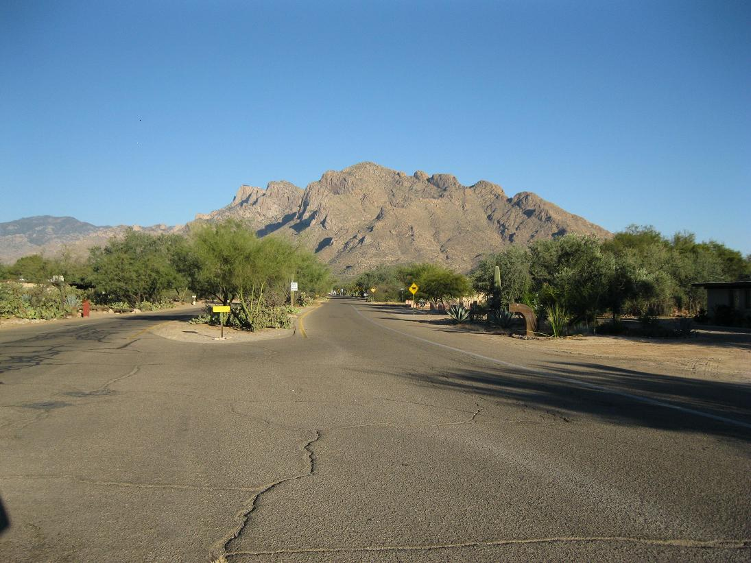 The photo shows Pusch Ridge looking west on Calle Concordia in a residential area of Oro Valley, Arizona.